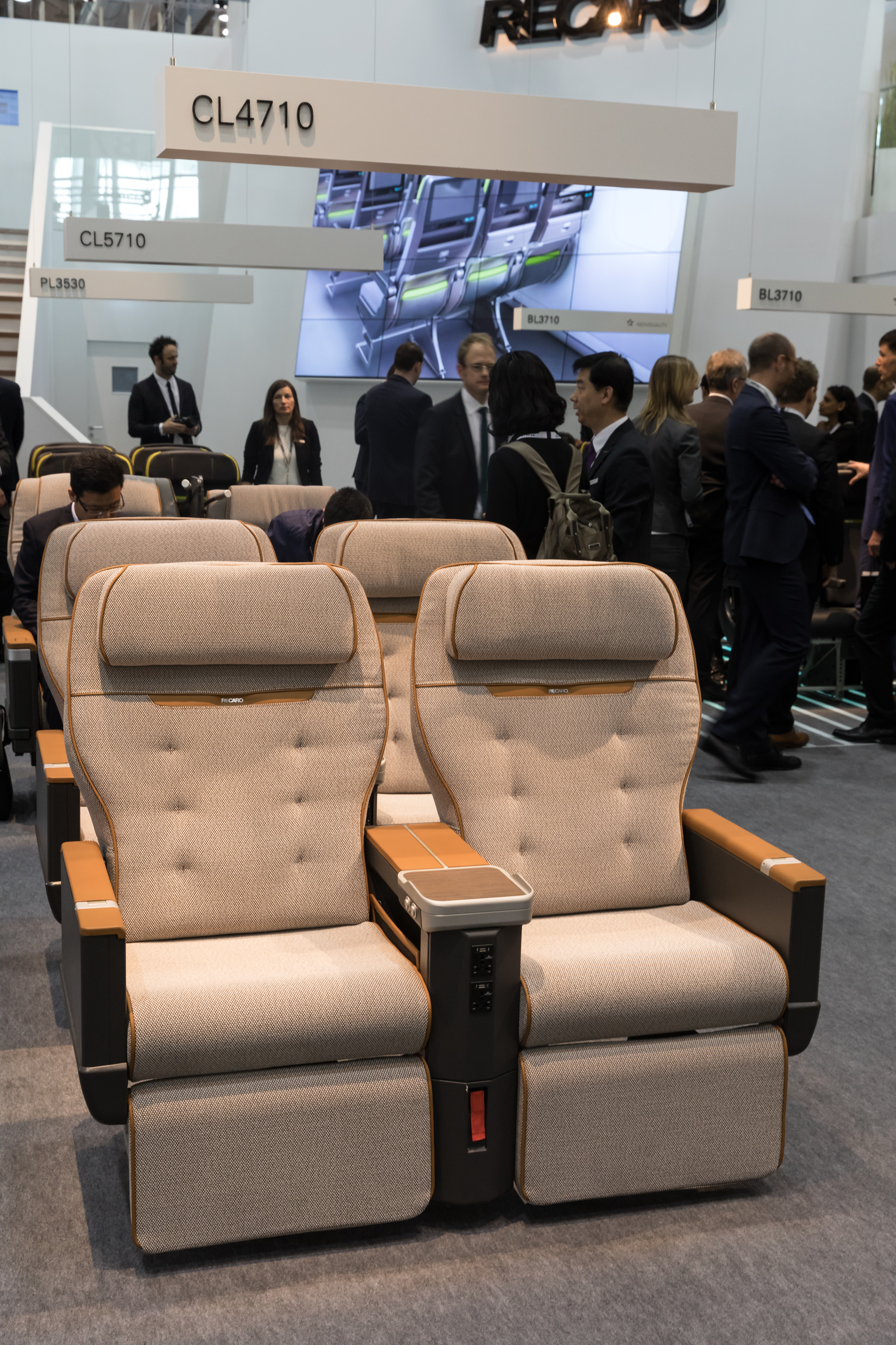 Passenger Experience Week 2018, Hamburg